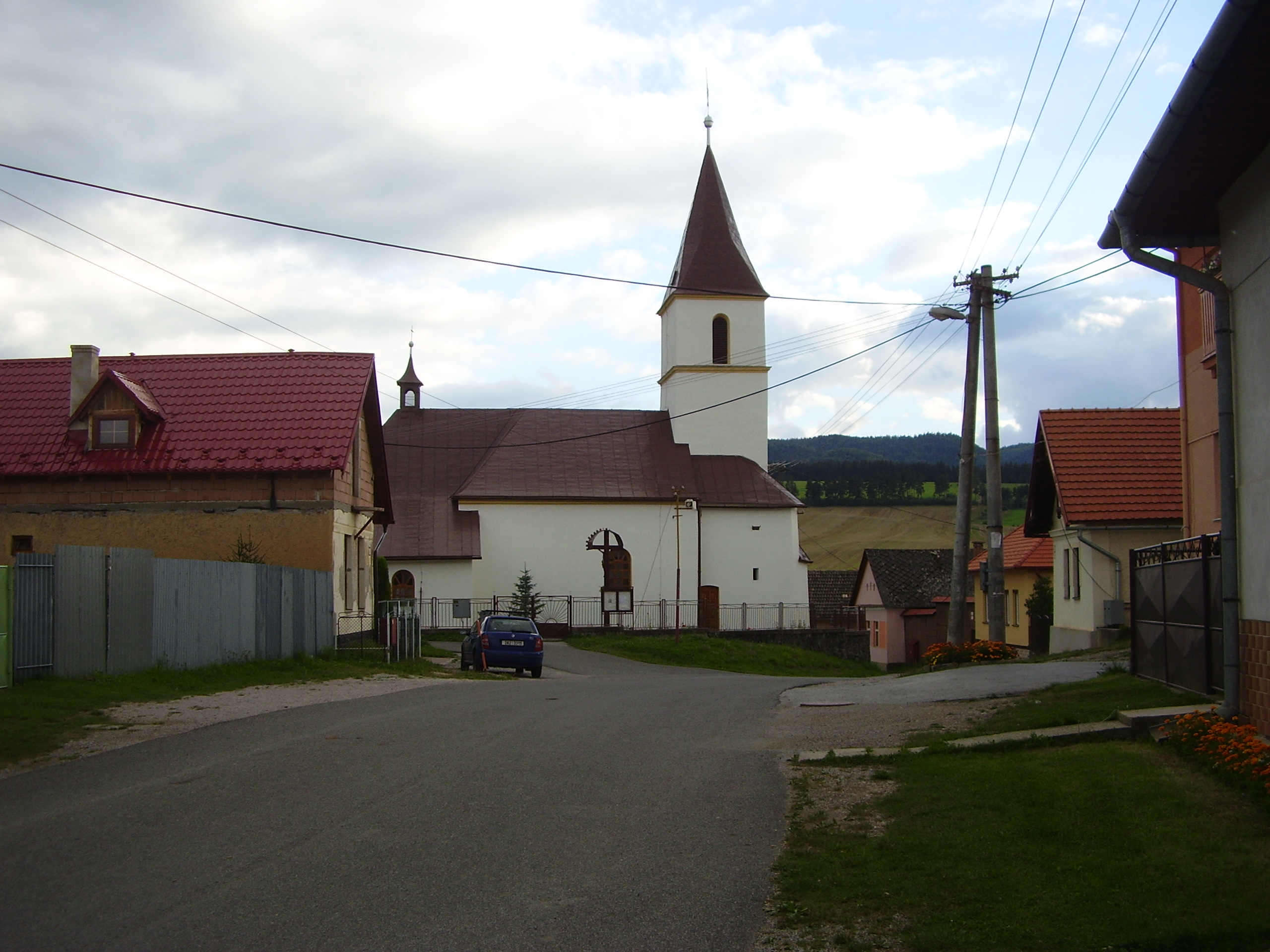 Church in Spišské Tomášovce This medium shows the protected monument with the number 810-799/0 (other) in the Slovak Republic.